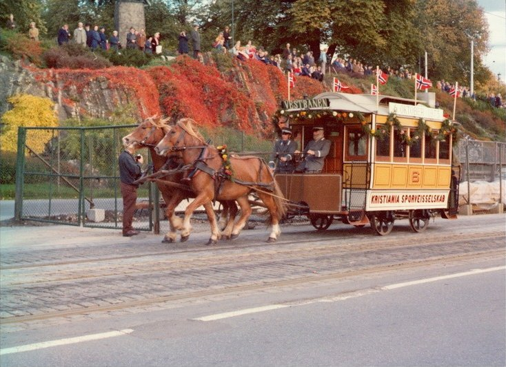 Kristiania Sporveisselskab heritage horsecar.